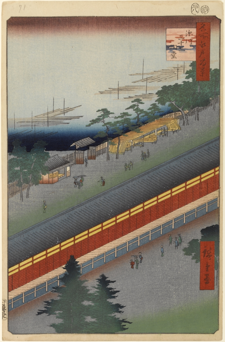 Part of the series One Hundred Famous Views of Edo, no. 069, part 2: Summer.